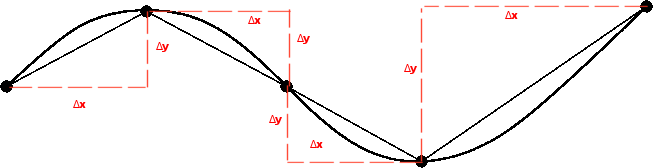 Approximation of an arclength by multiple hypotenuses.